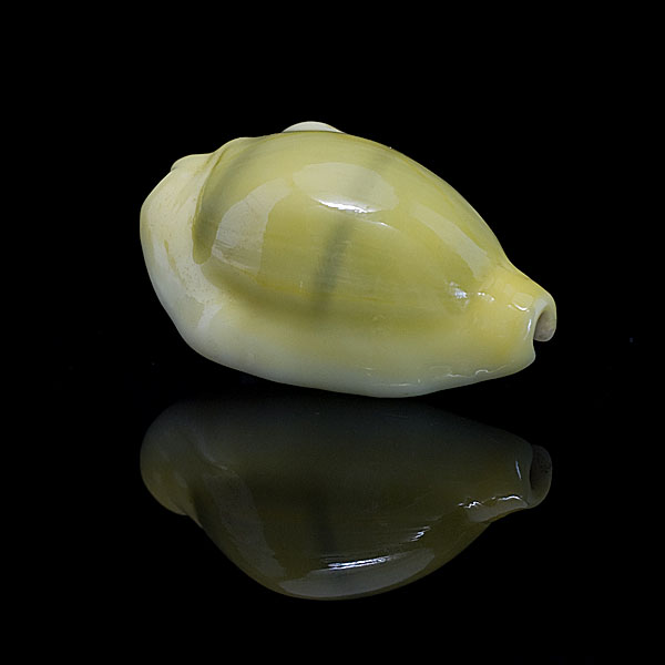 Monetaria moneta